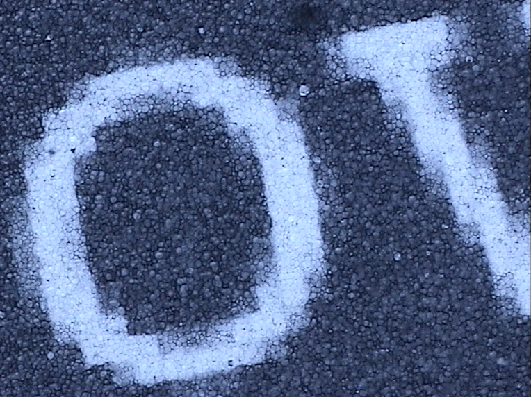 Microcapsules used in the e-ink display of a Kindle 3. Lens was focussed just below the surface of the screen in order to show the microcapsules.